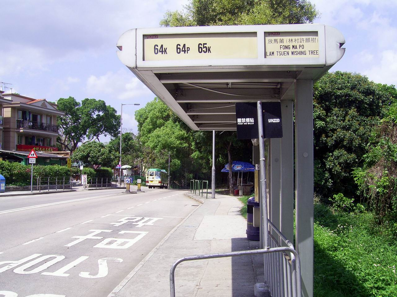 Lam Tsuen Wishing Tree bus stop on Lam Kam Road